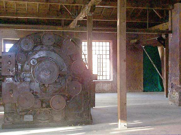 Water driven machinery, image from the Open-air Water Museum, Edessa, Central Macedonia, Greece